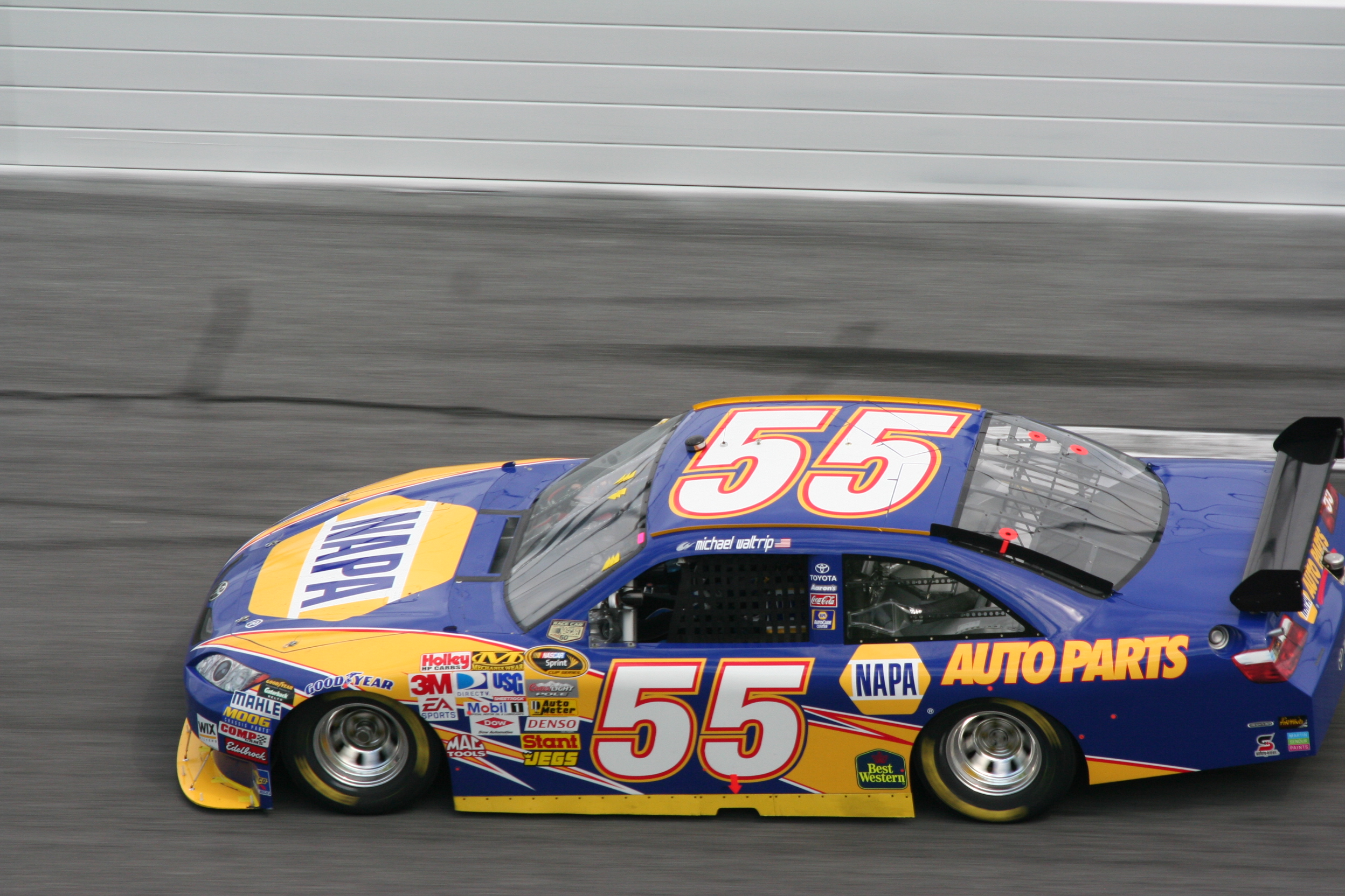 Shot by The Daredevil at Daytona during Speedweeks 2008Michael Waltrip Napa Toyota Camry